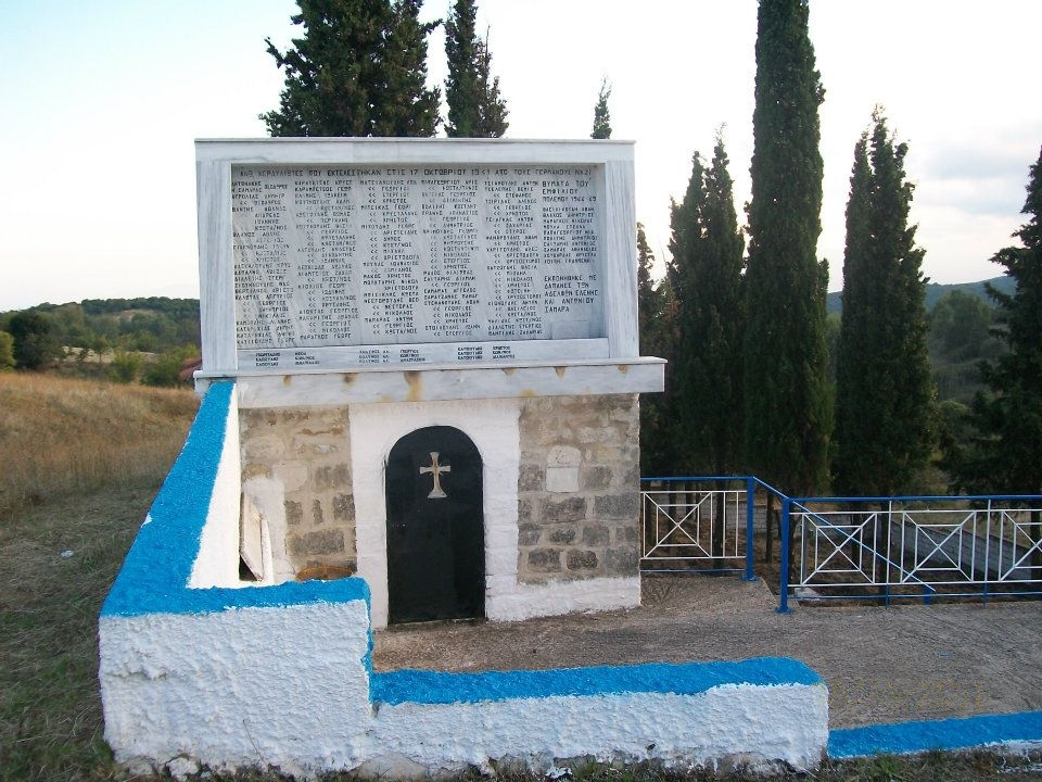 The memorial of Ano Kerdyllia, Serres. This is the site when Germans on WWII killed civilians of the village of Ano Kerdyllia, Serres peripheral unit, Central Macedonia. (17-10-1941)